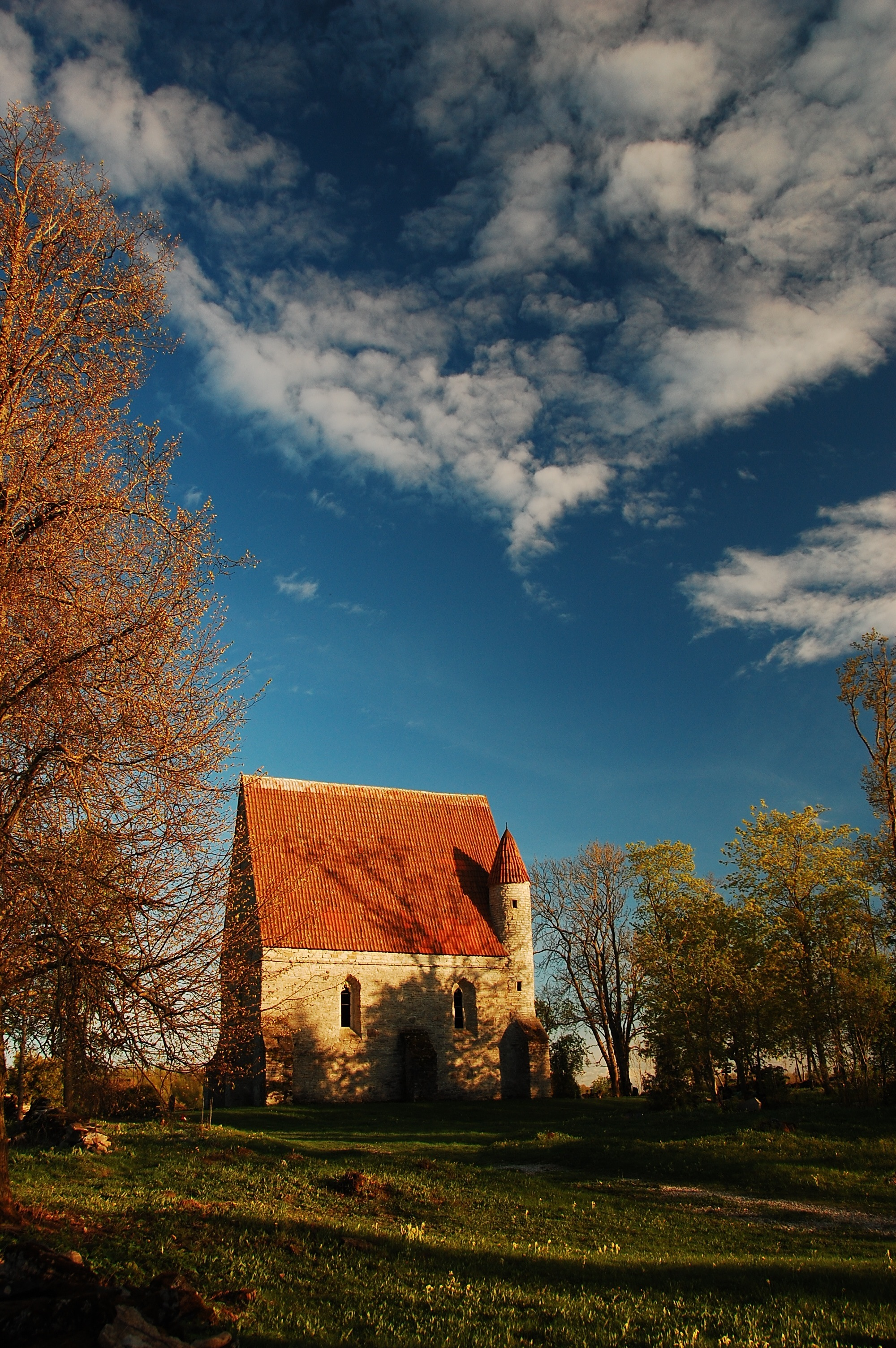 Saha chapel